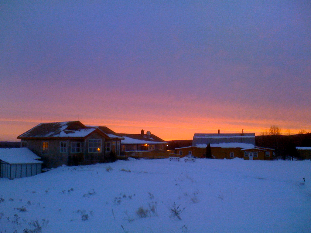 Sunrise at Dorje Denma Ling in Tatamagouche, Nova Scotia in February 2008. Buddhist retreat center in eastern Canada. Associated with the Shambhala Buddhist lineage.